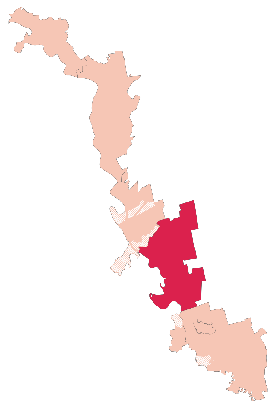 Raions of Transnistria: Grigoriopol